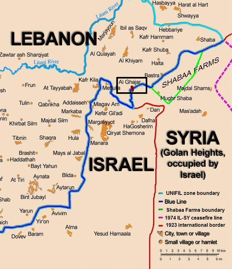 Map showing the Blue Line demarcation line between Lebanon and Israel, established by the UN after the Israeli withdrawal from southern Lebanon after its short 1978 invasion called "Operation Litani". It follows the 1949 cease-fire line, also known as the Green Line, as well as the somewhat contested Lebanese-Syrian border towards the Israeli-occupied Golan Heights. The map is made by Thomas Blomberg, using the UNIFIL map, deployment as of July 2006 as source.